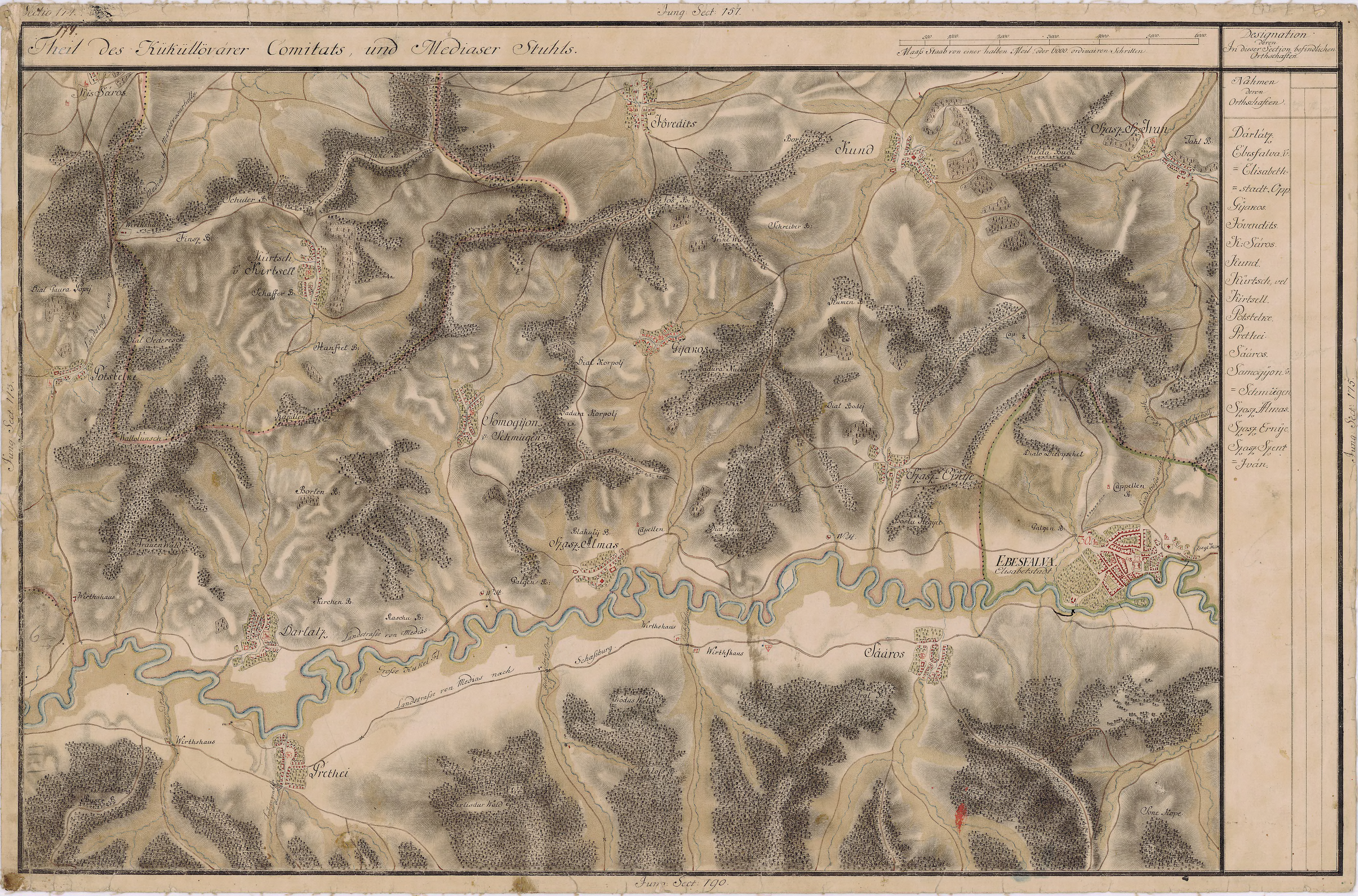 Grand Duchy of Transylvania, 1769-1773. Josephinische Landaufnahme pg.174